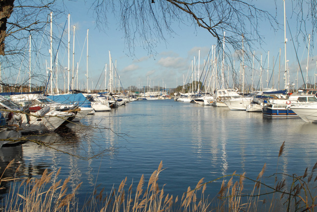 View Across Chichester Marina